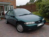 1995 Mondeo Verona 1.8TD Juice Green, My picture of a car that I owned during 2002. Registration number has been obscured for privacy of current owner.